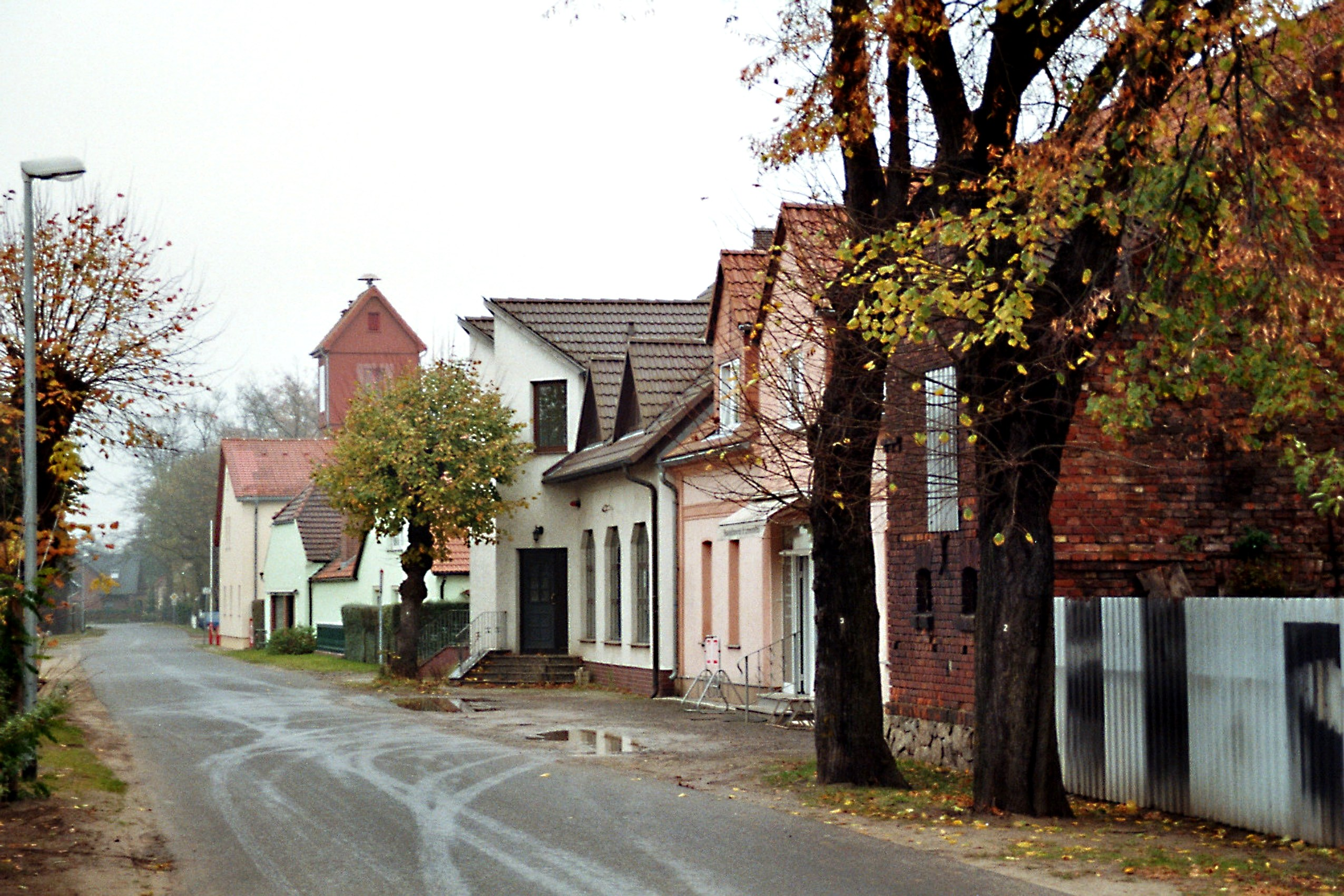 Werben (Spreewald), the Schulstraße